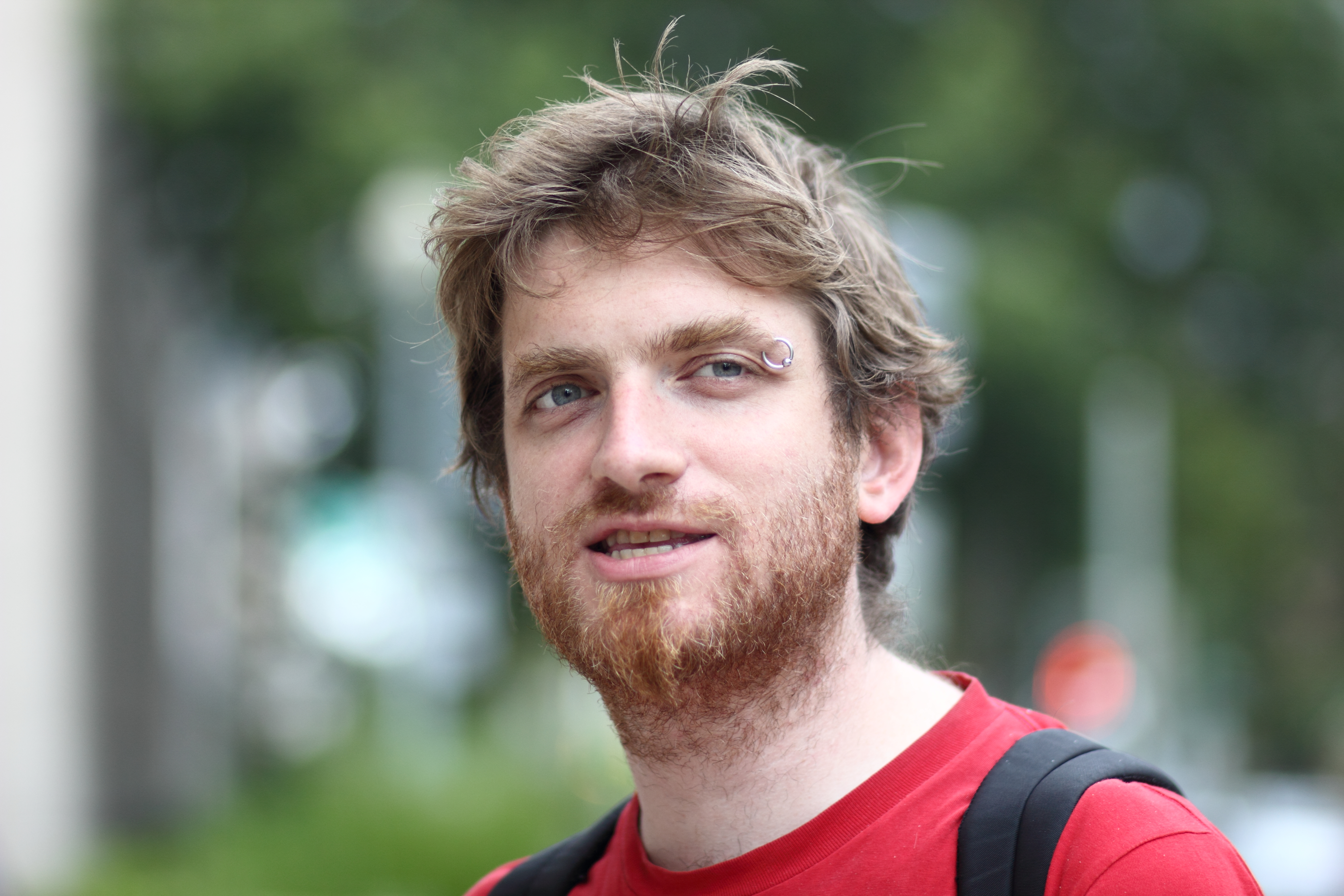 Portrait of attendee(s) at Wikimania 2012 in Washington, DC.